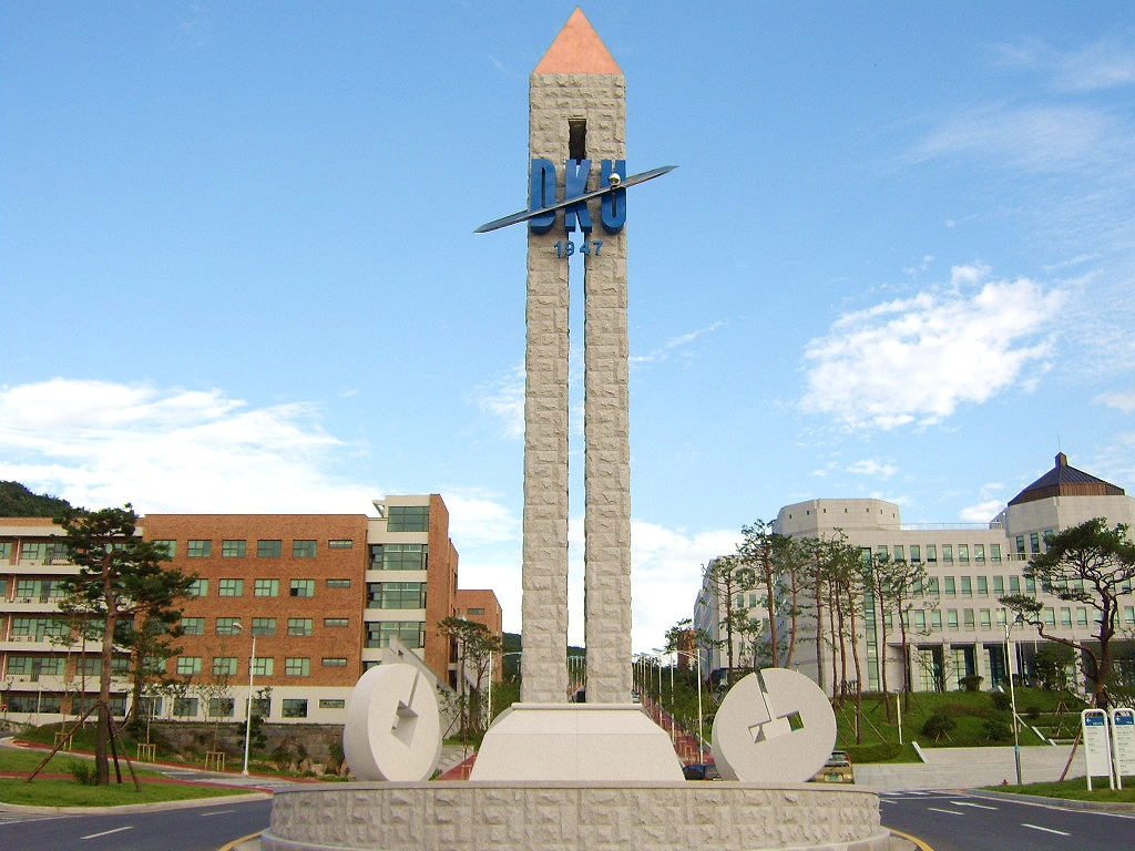 The Symbolic tower of Dankook university(jukjeon)